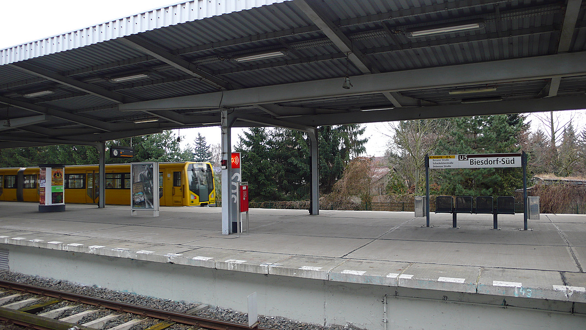 Biesdorf-sued